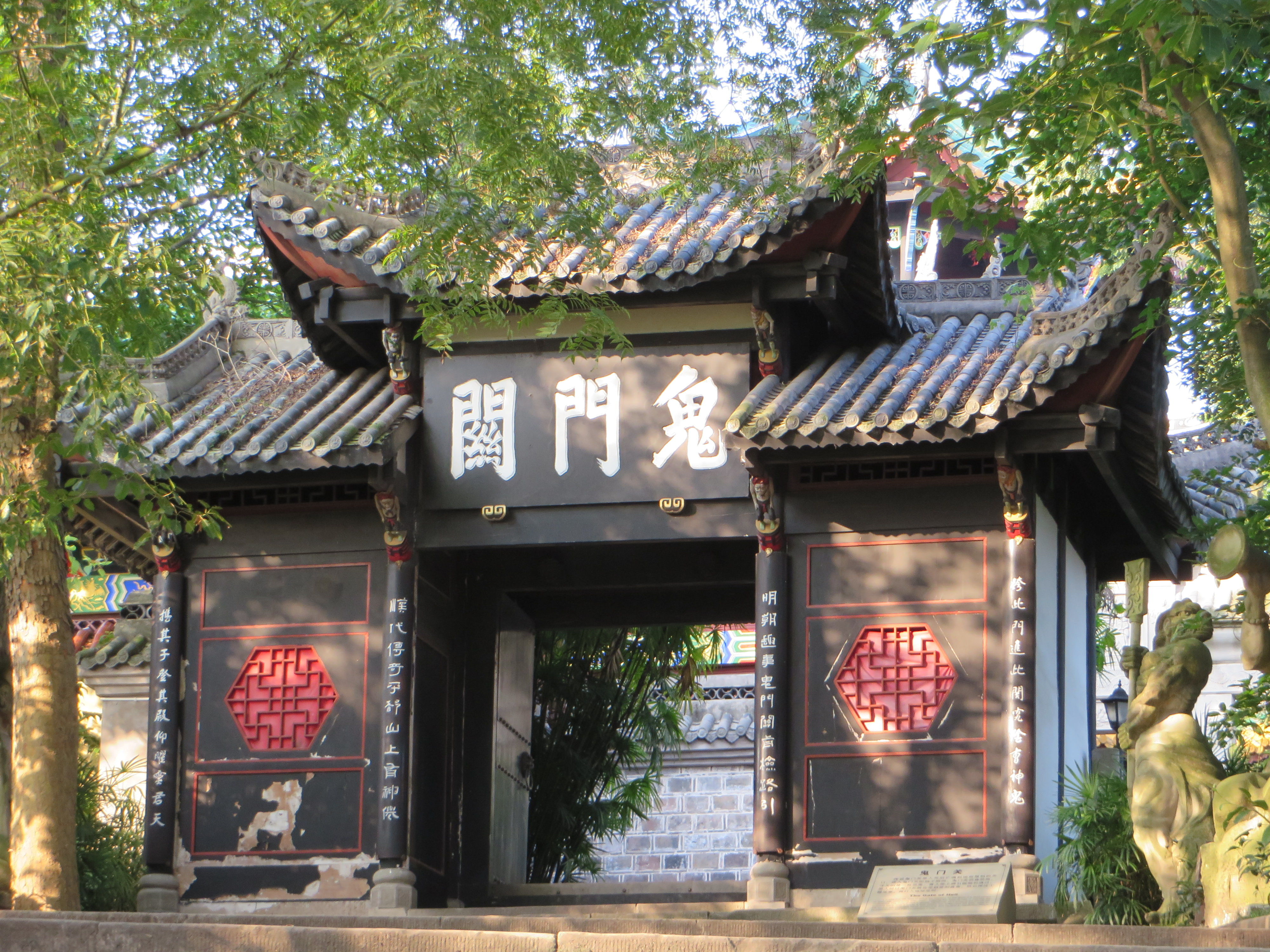 Gates of Hell at Fengdu Ghost City, Chongqing, China.